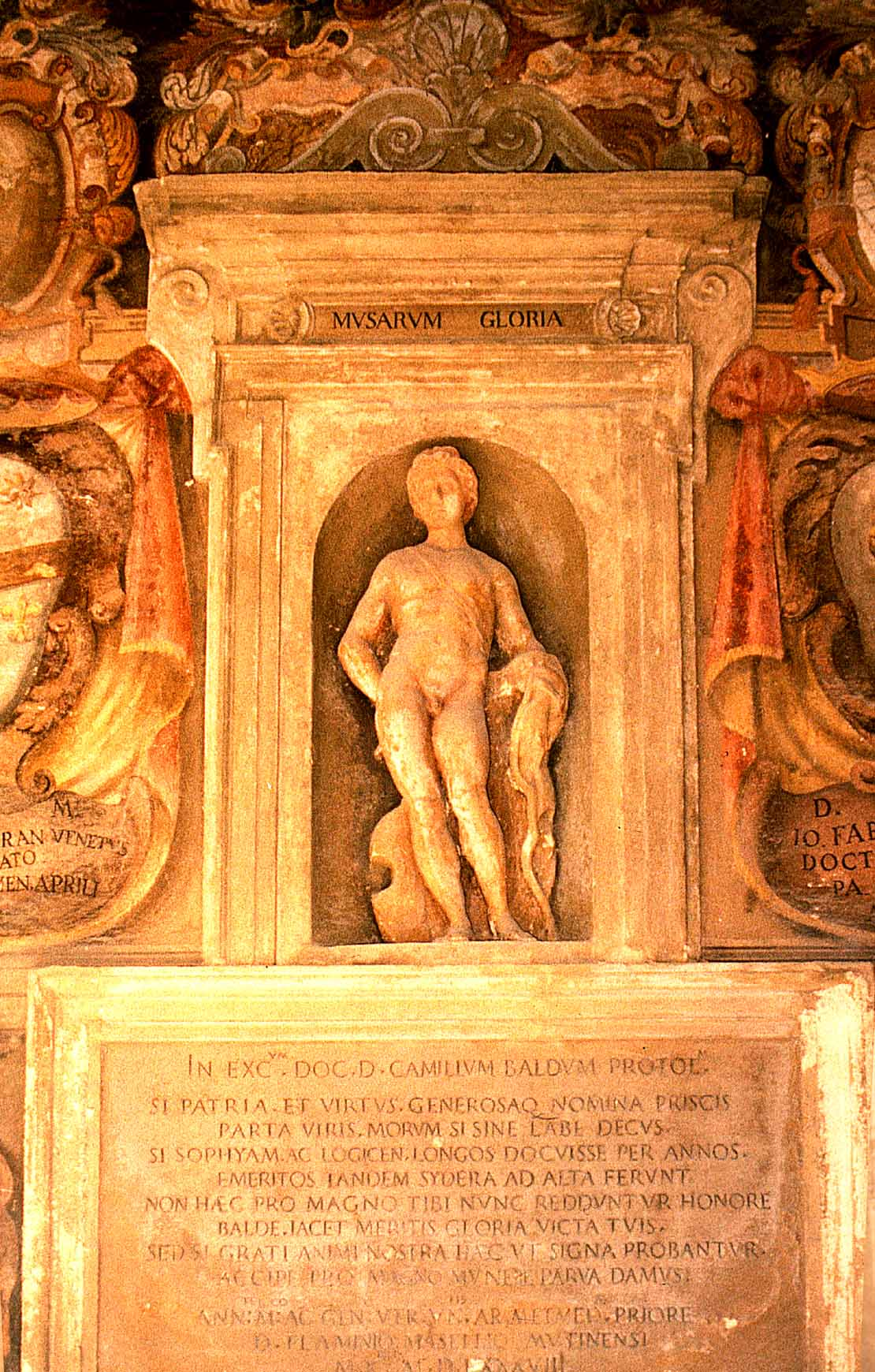 Photo of the monument to Camillo Baldi in the courtyard of the Archiginnasio, Bologna.